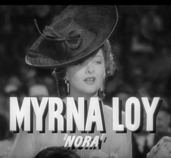 Cropped screenshot of Myrna Loy from the trailer for Shadow of the Thin Man. Myrna Loy is wearing a costume designed by costume designer Robert Kalloch.